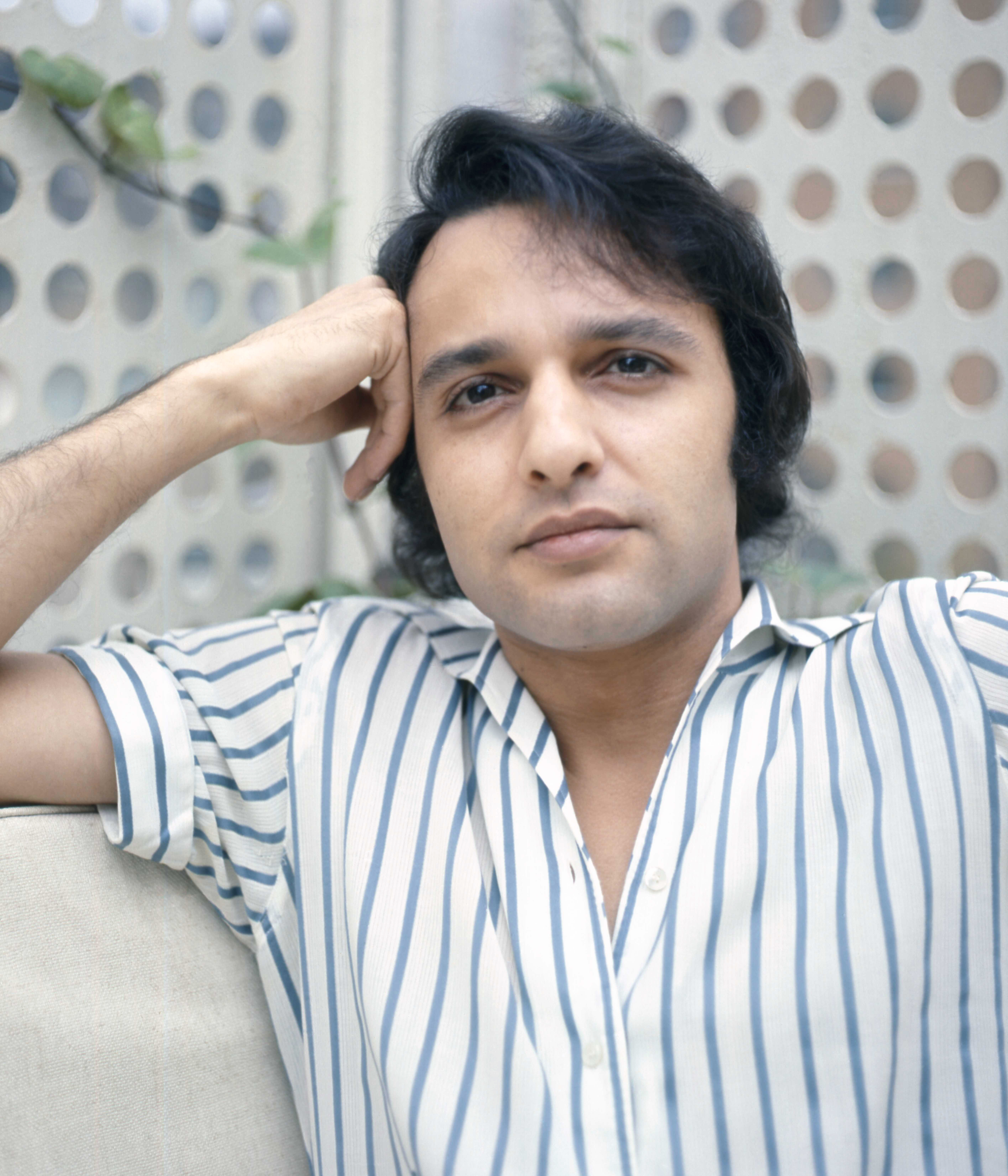 Portrait of Sal Mineo